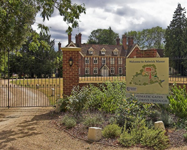 Astwick Manor. An imposing Manor House, now being sold as Apartments.